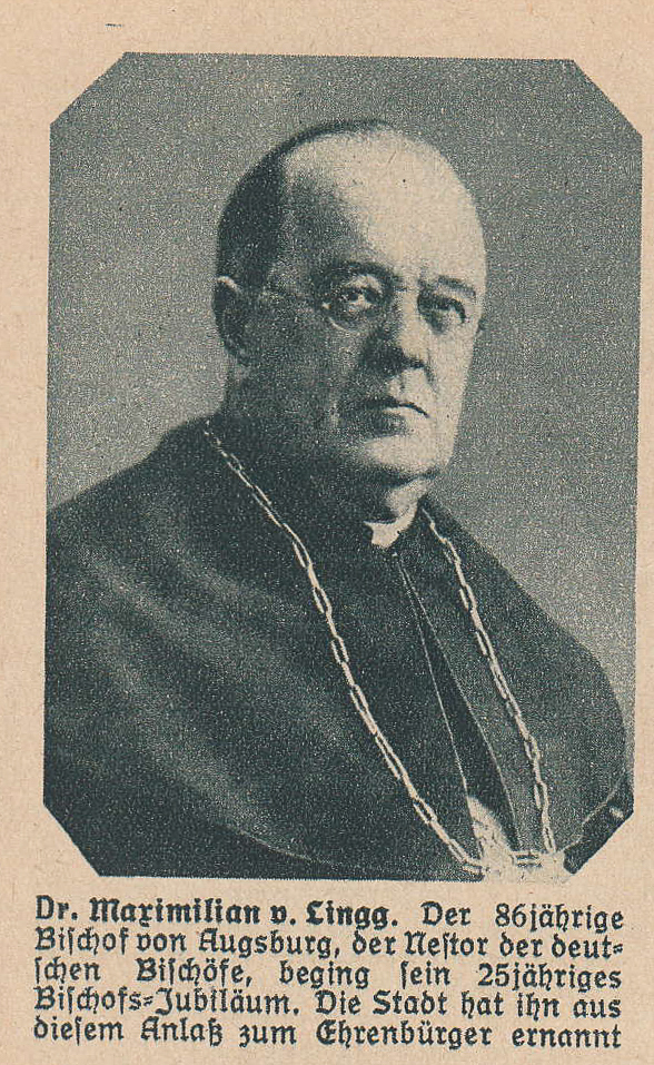 From the Catholic magazine StadtGottes 1927